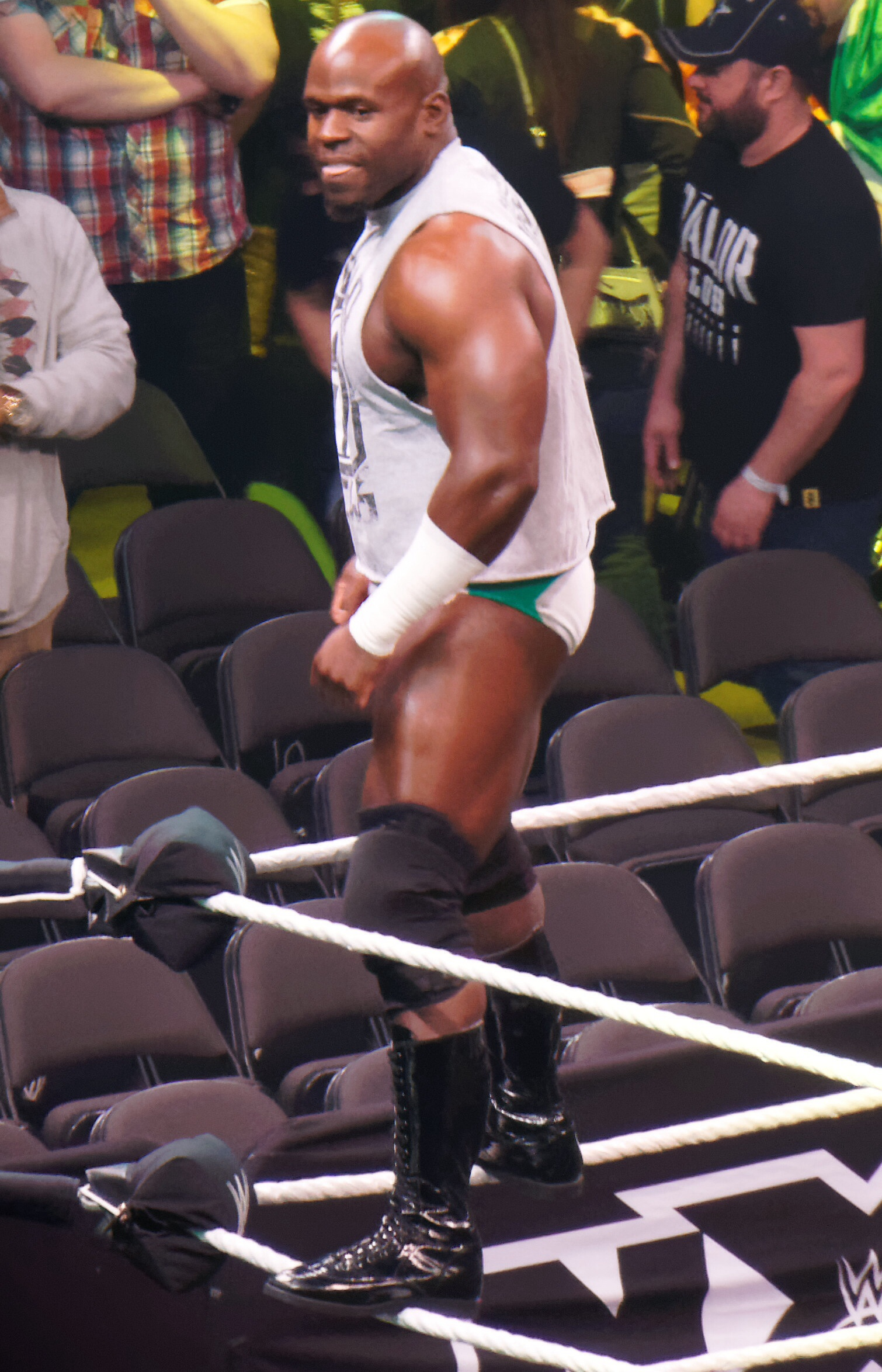 NXT TakeOver: Dallas was a major professional wrestling show in the NXT TakeOver series that took place on April 1, 2016, produced by WWE, showcasing its NXT developmental brand, and was streamed live on the WWE Network. It took place in the Kay Bailey Hutchison Convention Center in Dallas, Texas, during the weekend of WrestleMania 32. It was the first show in the NXT TakeOver series to be broadcast live on the WWE Network during WrestleMania weekend and first of 2016.[4] It was notable for Shinsuke Nakamura's WWE debut and first live match. The event received critical acclaim, with critics endorsing it as being better than WWE's WrestleMania 32 held two days later. The Zayn-Nakamura match was also lauded for being better than any match from WrestleMania 32. Apollo Crews defeated Elias Samson